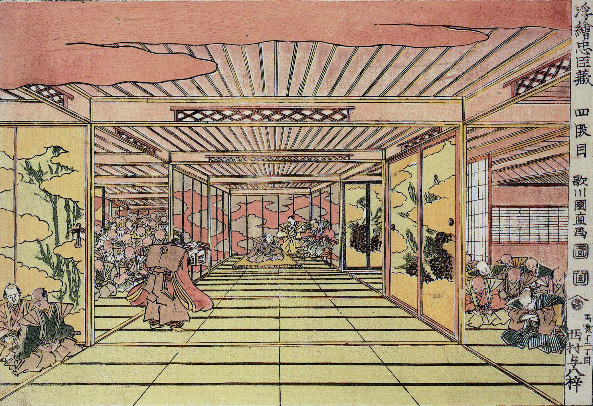 In this scene from the Chūshingura, Asano Naganori has received his death sentence from a messenger of the shogun (center). His retainers bow their heads in sorrow as he prepares to commit seppuku, the tools for which are being brought by the figure to the left of center.